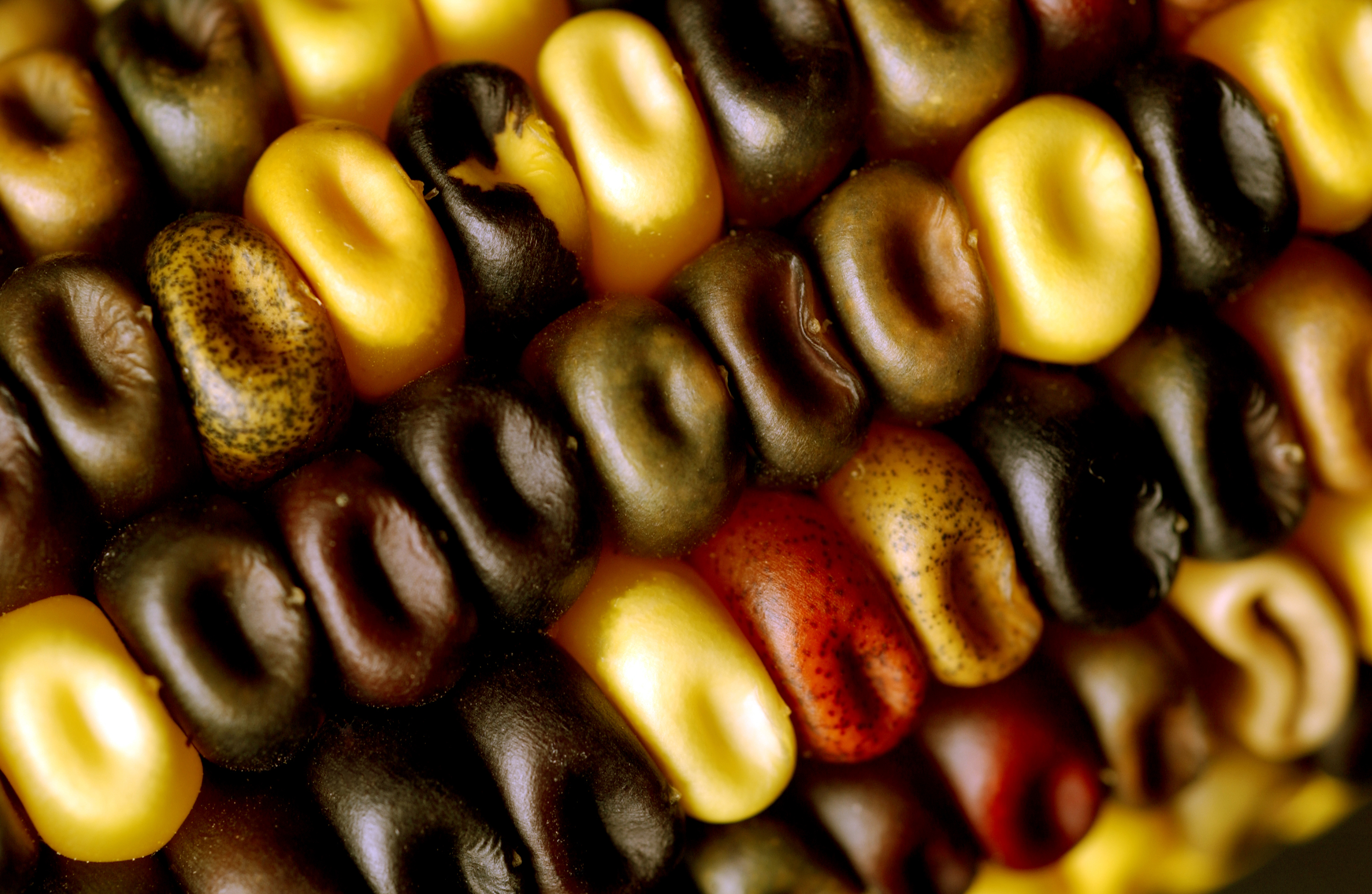 Detail of an ear of a multicoloured variety of corn or maize (Zea mays).